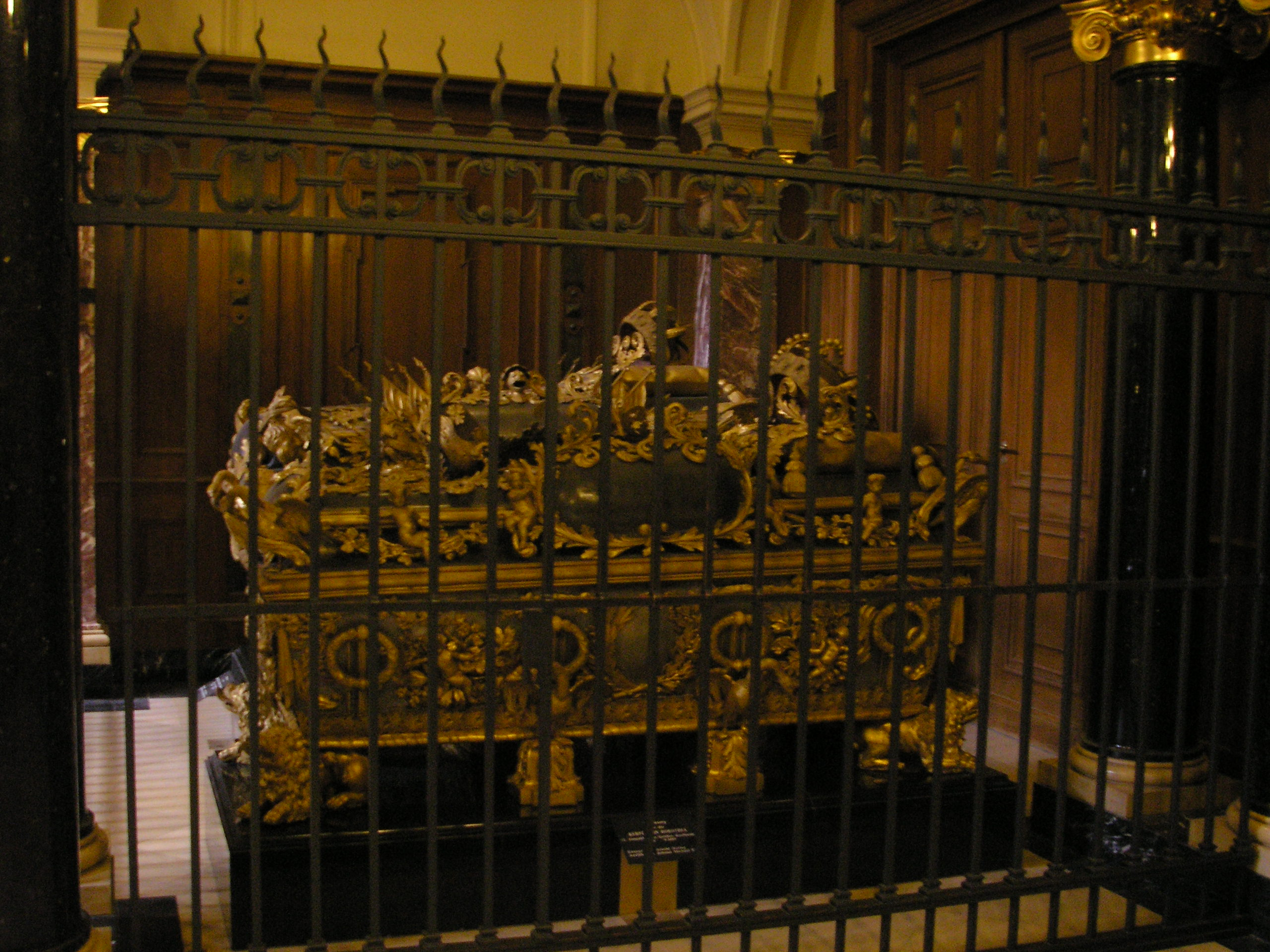 Description: Sarcophagus of Electress Dorothea of Brandenburg, Berliner Dom. Source: self-made, I release it into the public domain. Gryffindor 14:21, 11 April 2006 (UTC)